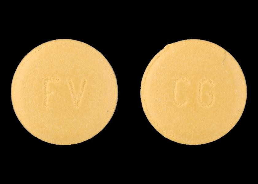 Drug Name: Femara 2.5 MG Oral Tablet Ingredient(s): Letrozole Drug Label Imprint: FV;CG Color(s): Yellow Shape: Round Size (mm): 7.00 Score: 1 Inactive Ingredient(s): ShowHide silicon dioxide / ferric oxide red / hypromellose ... silicon dioxide / ferric oxide red / hypromellose / lactose monohydrate / magnesium stearate / starch, corn / cellulose, microcrystalline / polyethylene glycol / sodium starch glycolate type a potato / talc / titanium dioxide Drug Label Author: Novartis Pharmaceuticals Corporation DEA Schedule: Non-scheduled